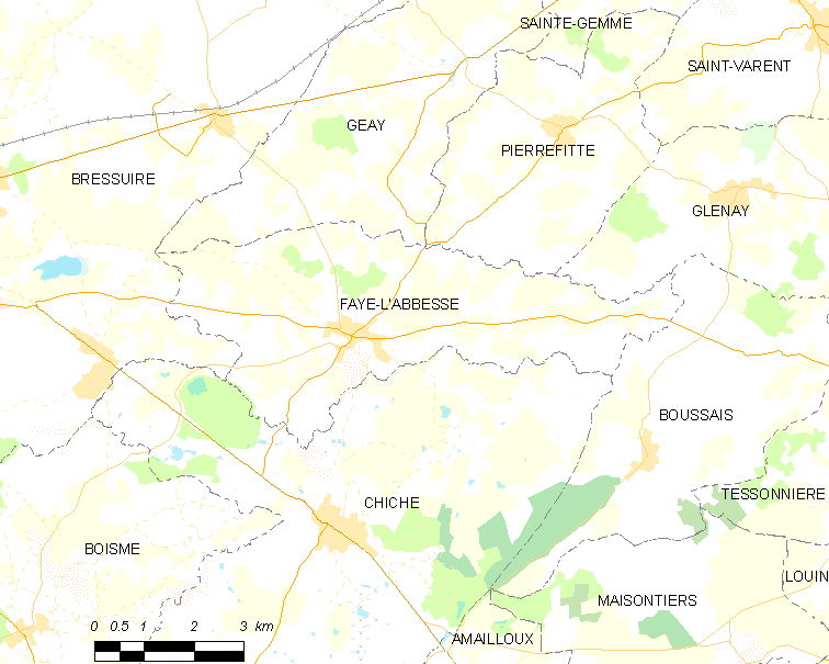 Map of French municipality Faye-l'Abbesse